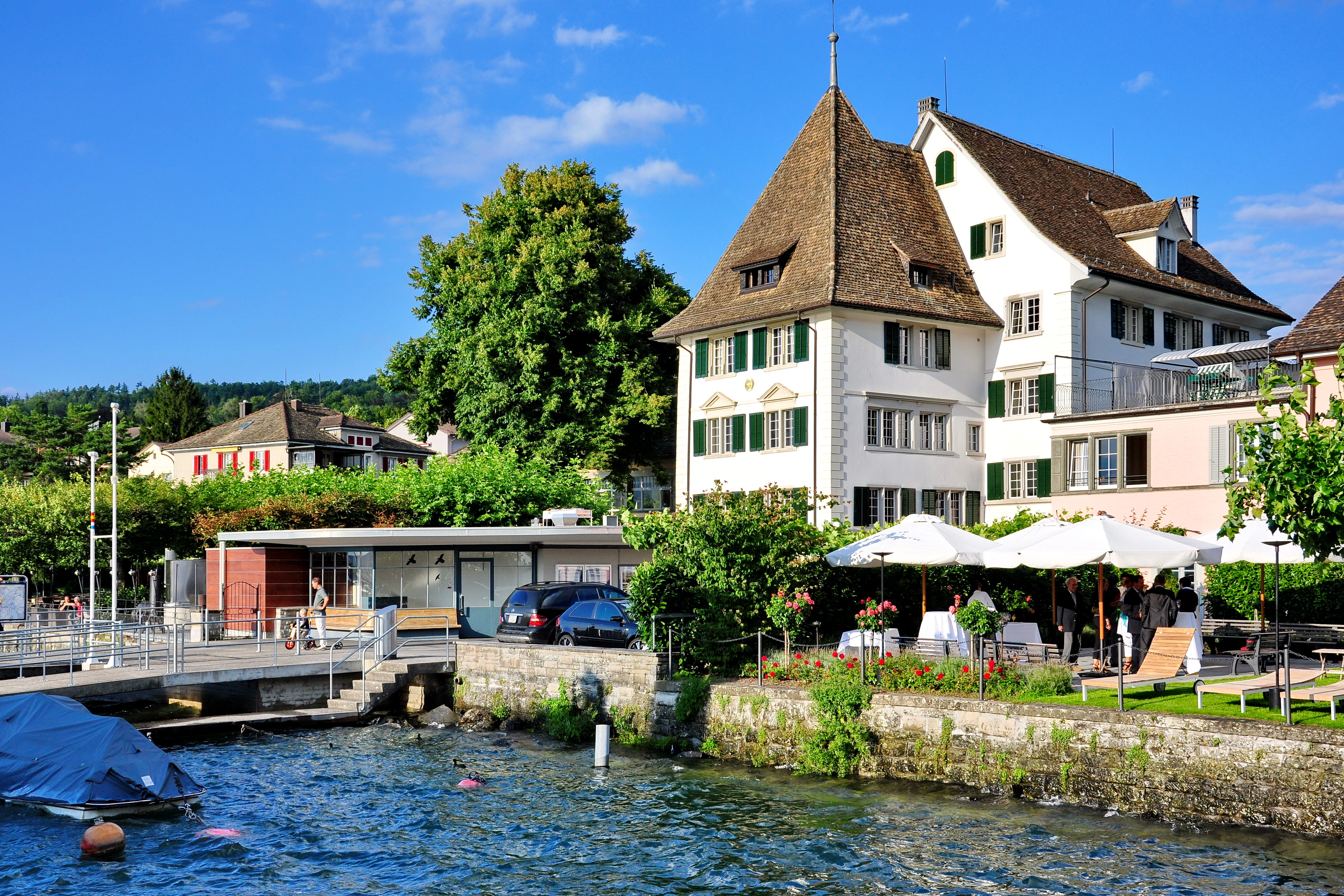 Küsnacht (Switzerland) as seen from ZSG paddle steamship Stadt Rapperswil